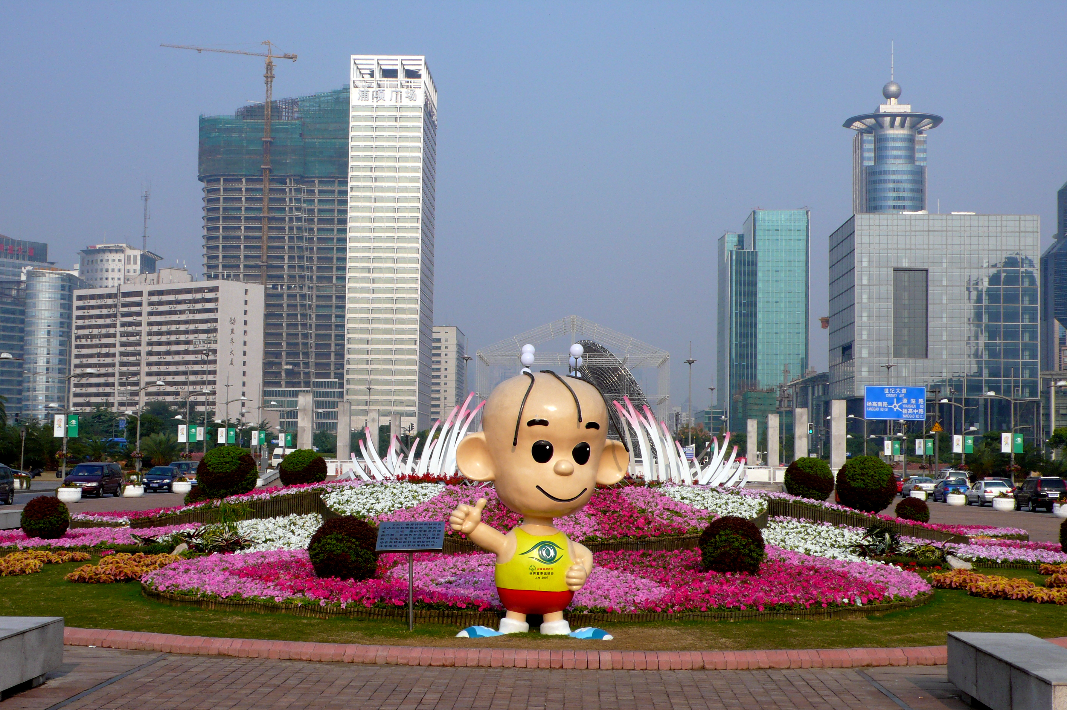 The mascot for the 2007 Special Olympics, held in Shanghai. Displayed in Pudong just in front of the Shanghai Science and Technology Museum.